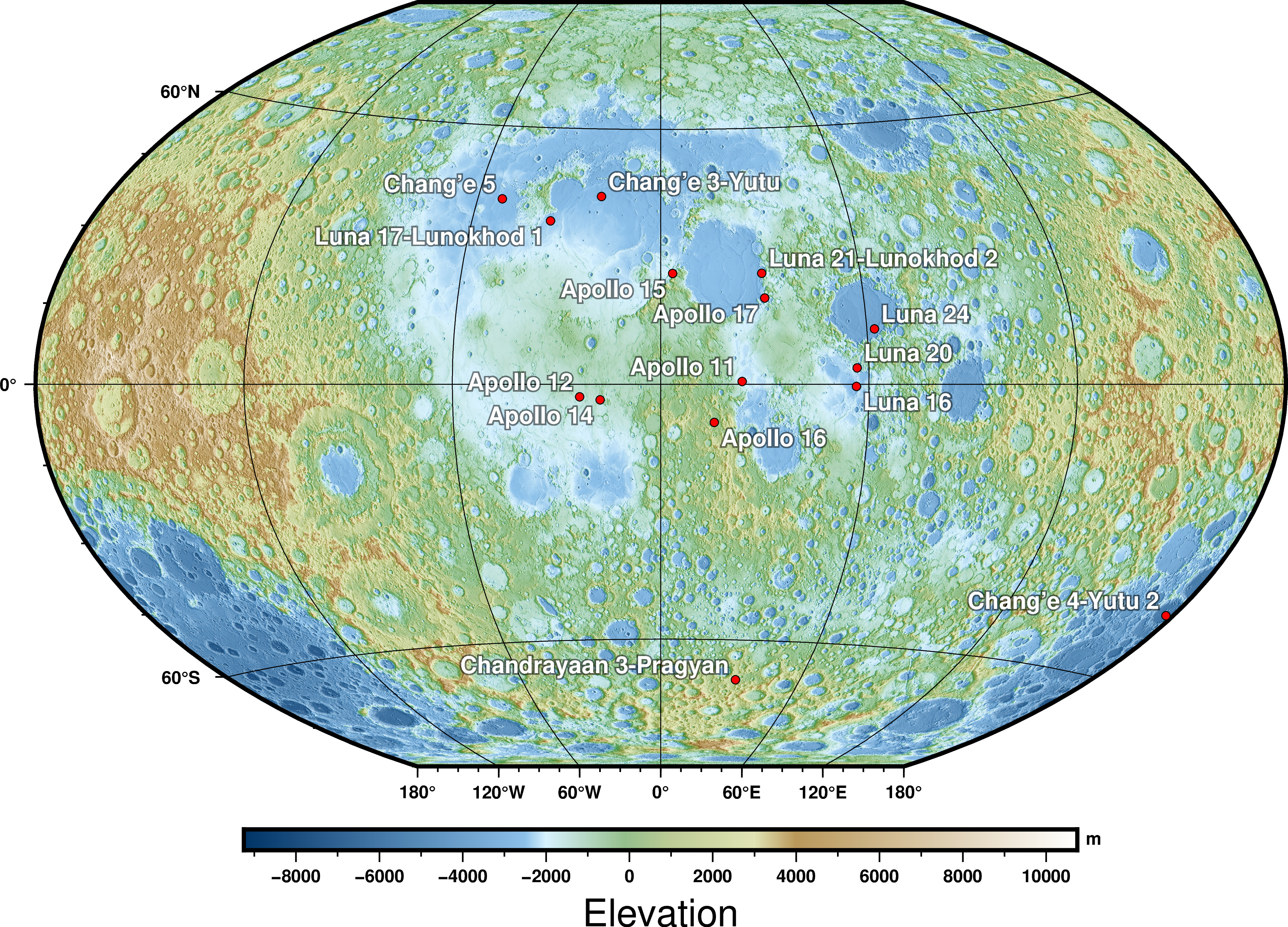 Position of Apollo and Lunokhod landing sites superimposed on Lunar Orbiter Laser Altimeter (LOLA) topography data using a Winkel Tripel projection